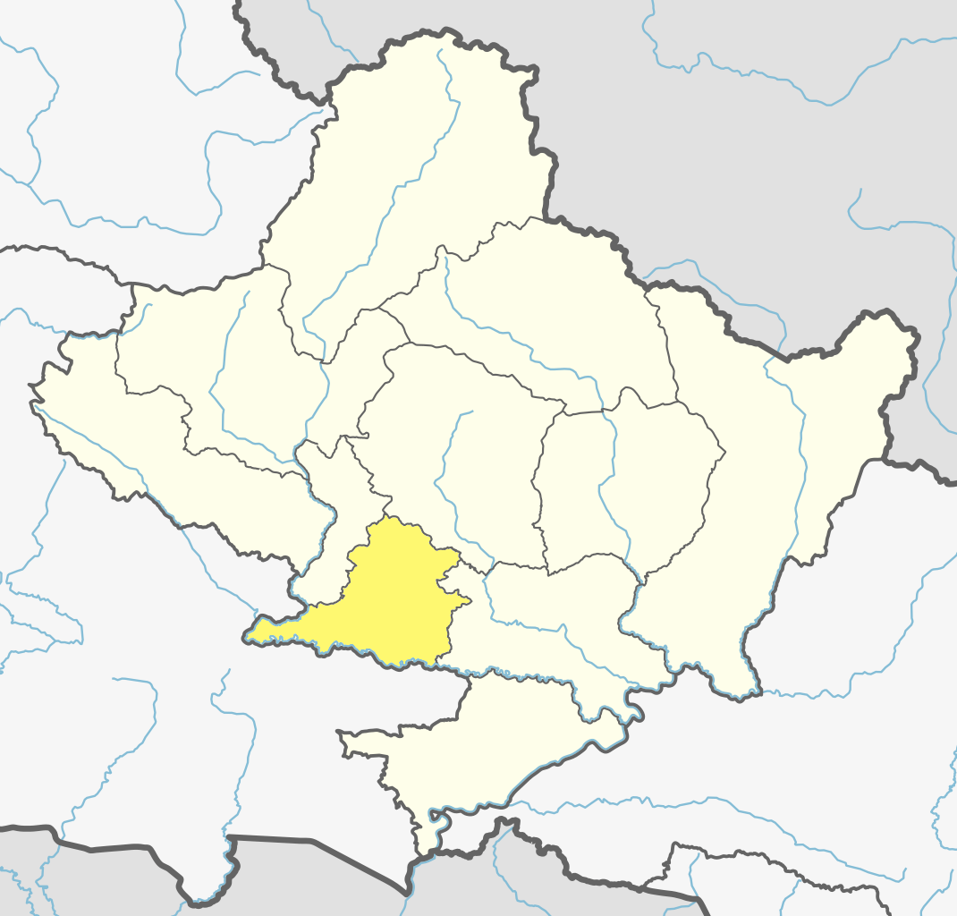 Syangja District